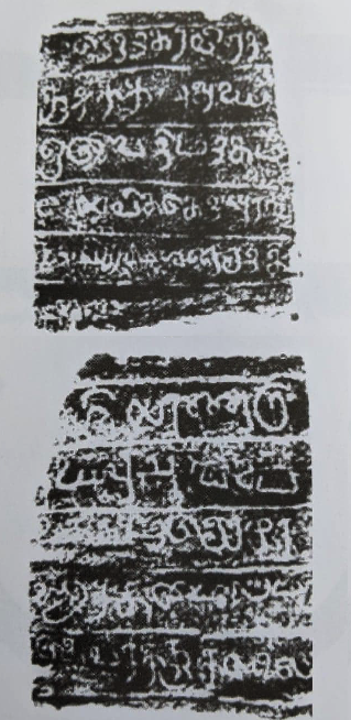 Atakada Tamil inscription, 11th century AD.